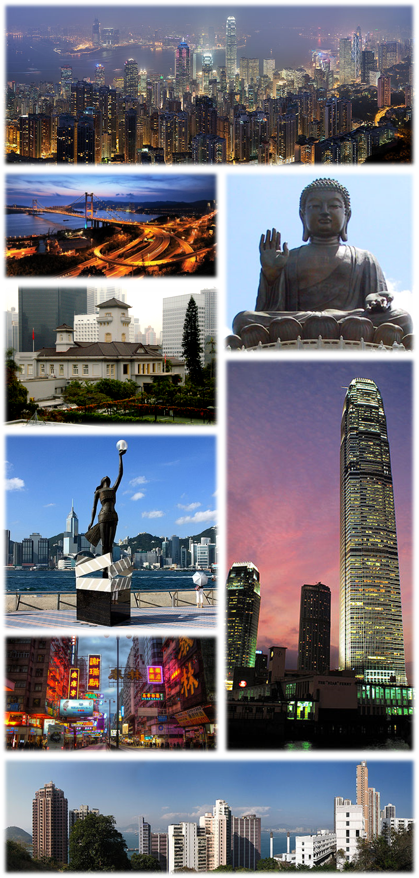 Collage of Hong Kong.